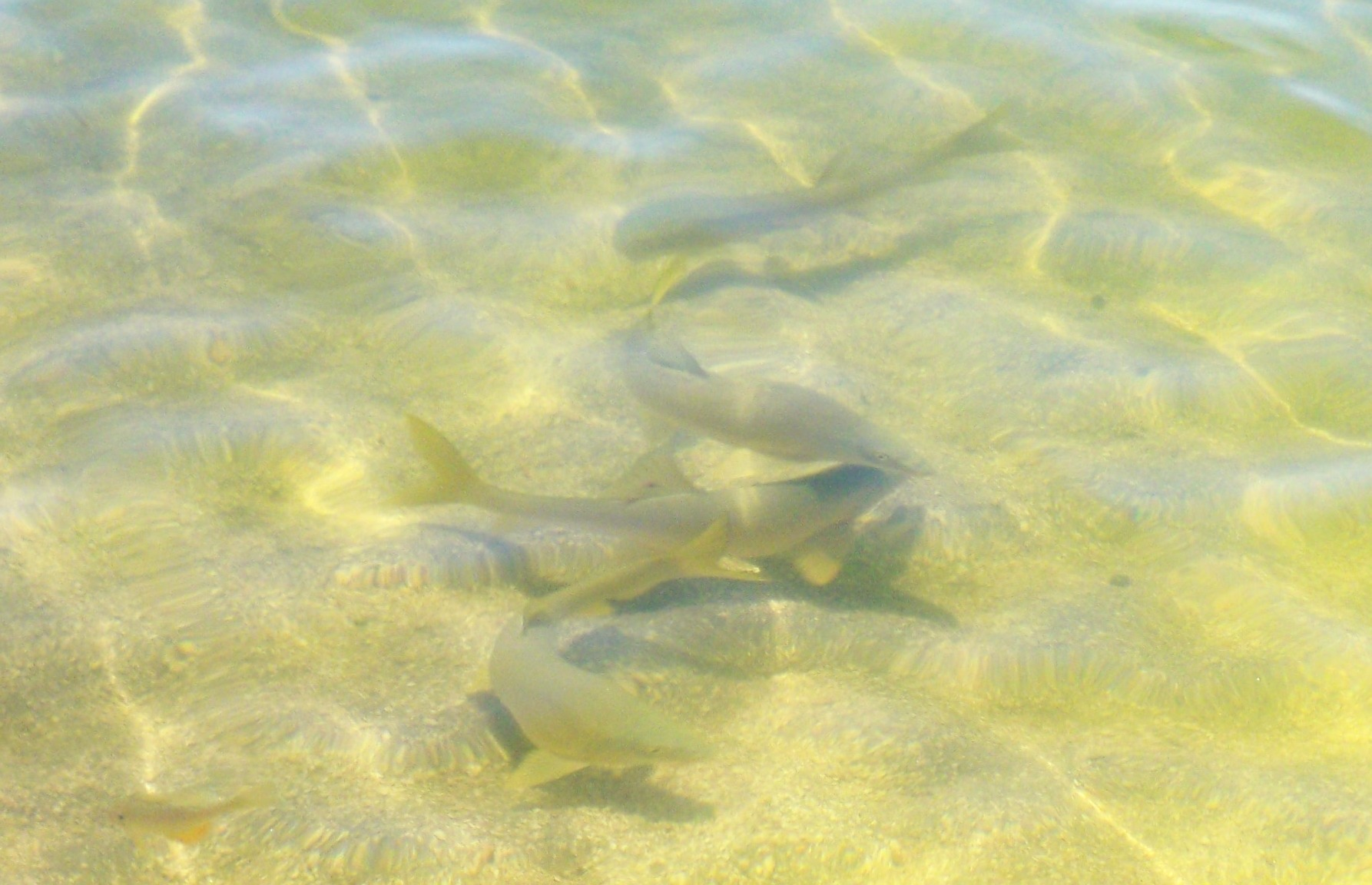 Iberian Barbels (Luciobarbus comizo) at San Juan reservoir, Madrid, Spain.